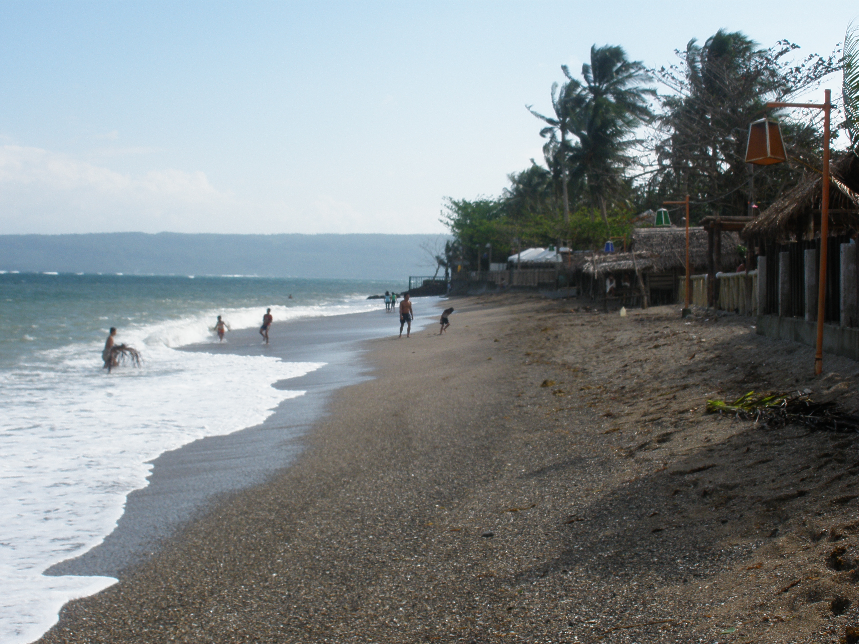 Bacon Beach,Sorsogon City - facing South. The mountains in the background divides Bacon district and the town of Prieto Diaz.